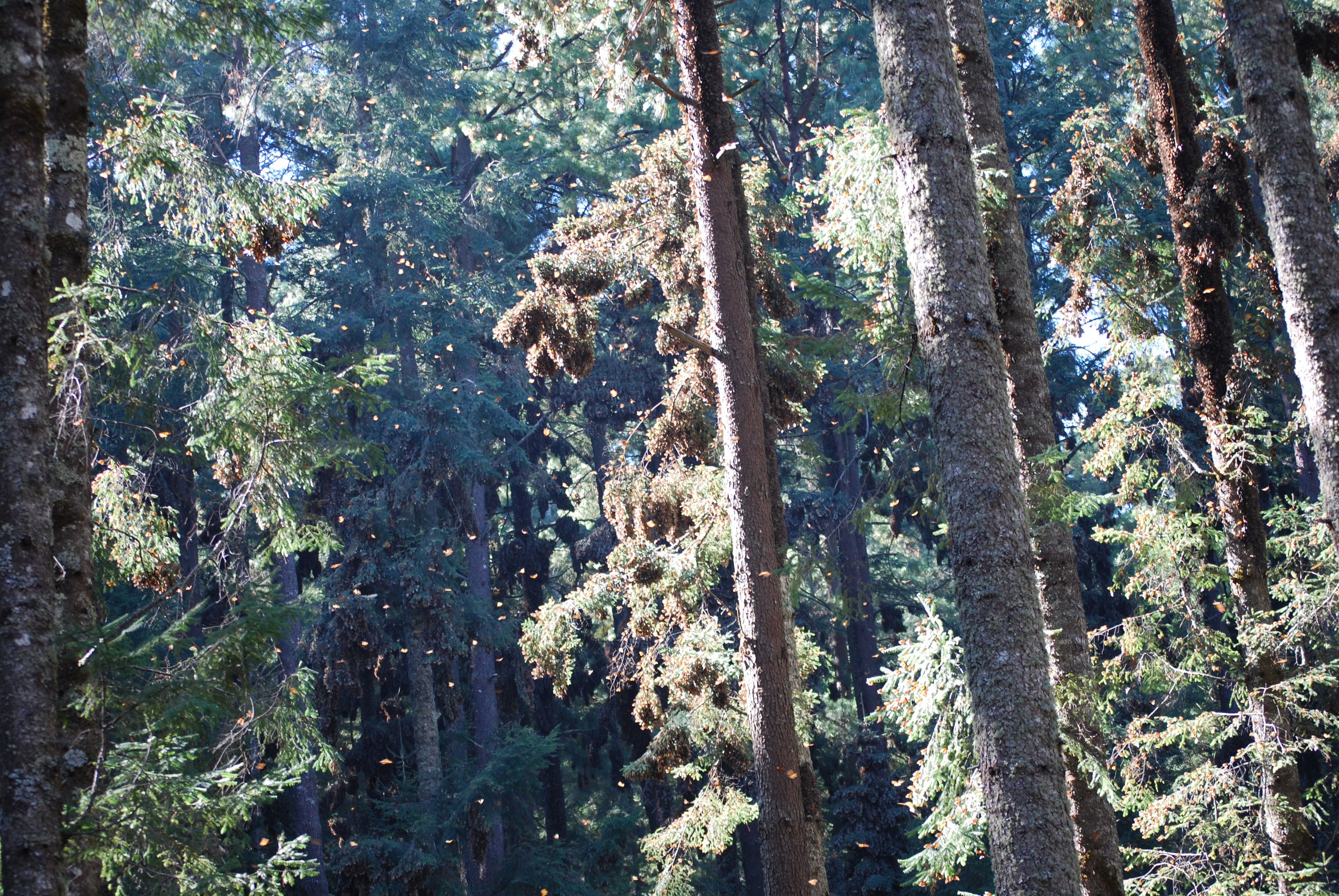 Monarch butterflies in the trees and air at the Cerro Prieto Sanctuary of the Sierra Chincua, Michoacan